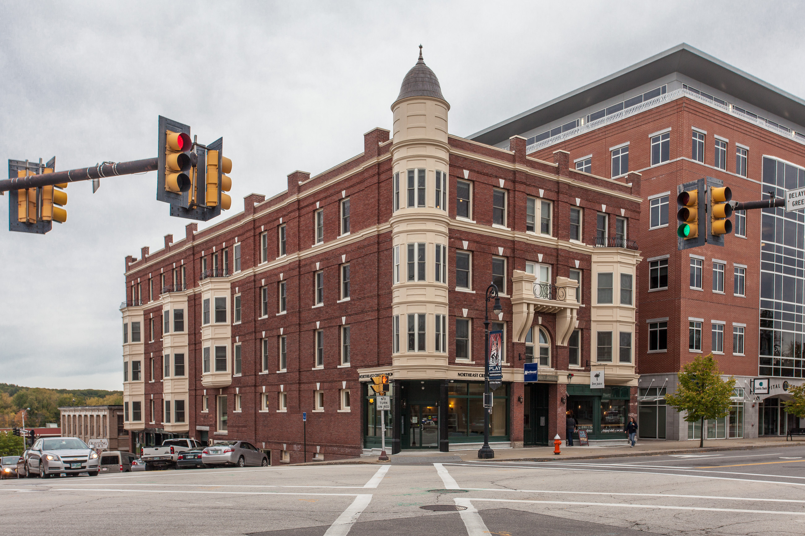 The Endicott Hotel (formerly Blanchard's Block) is a historic hotel building at 1-3 South Main Street in Concord, New Hampshire.